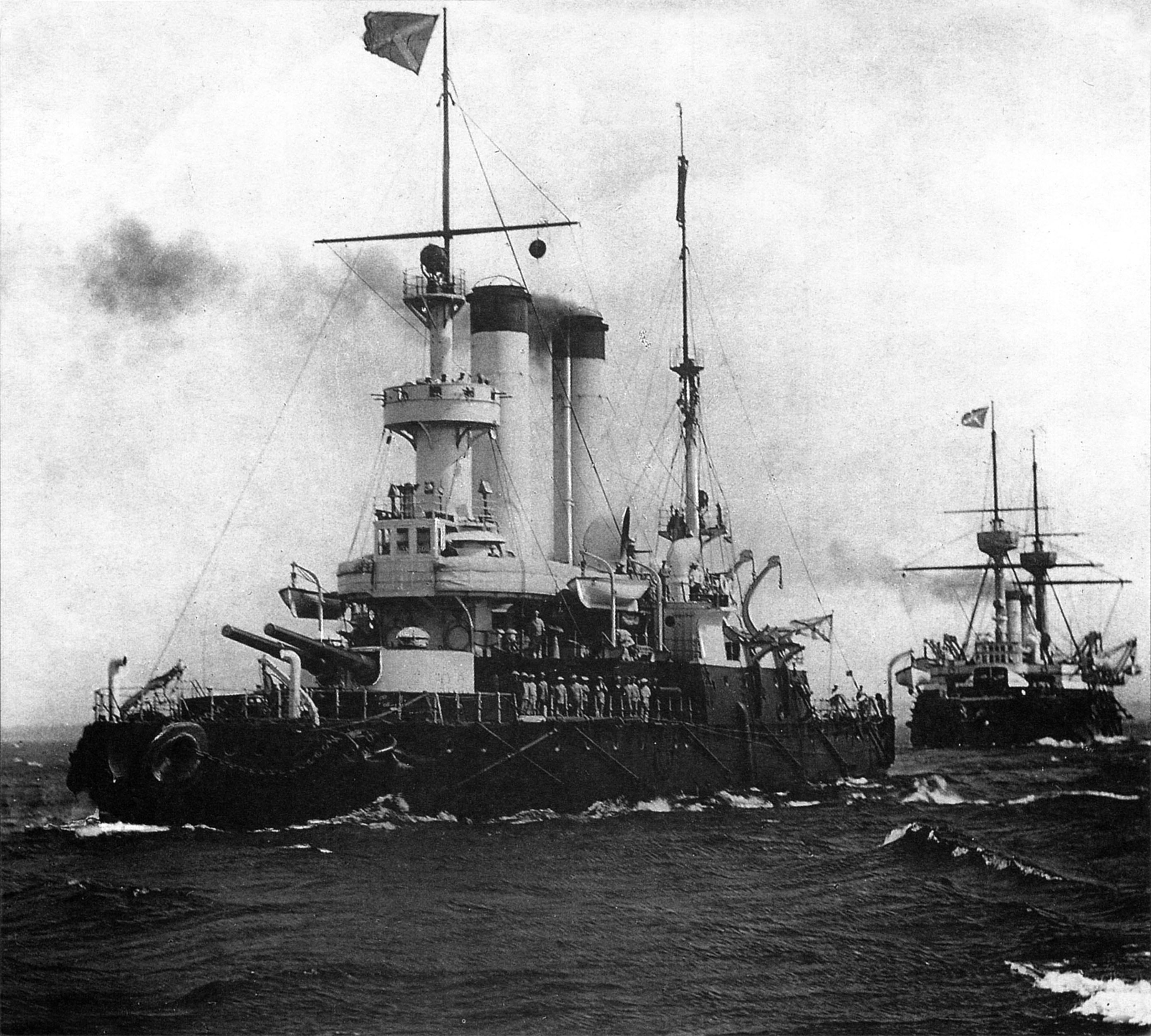 War ships of Imperial Russian Baltik fleet, June 1902.